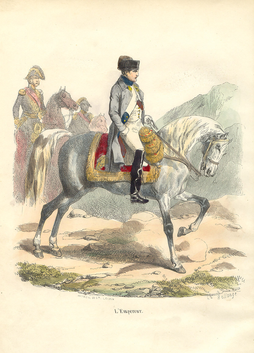 Napoleon. From book of P.-M. Laurent de L`Ardeche «Histoire de Napoleon», 1843